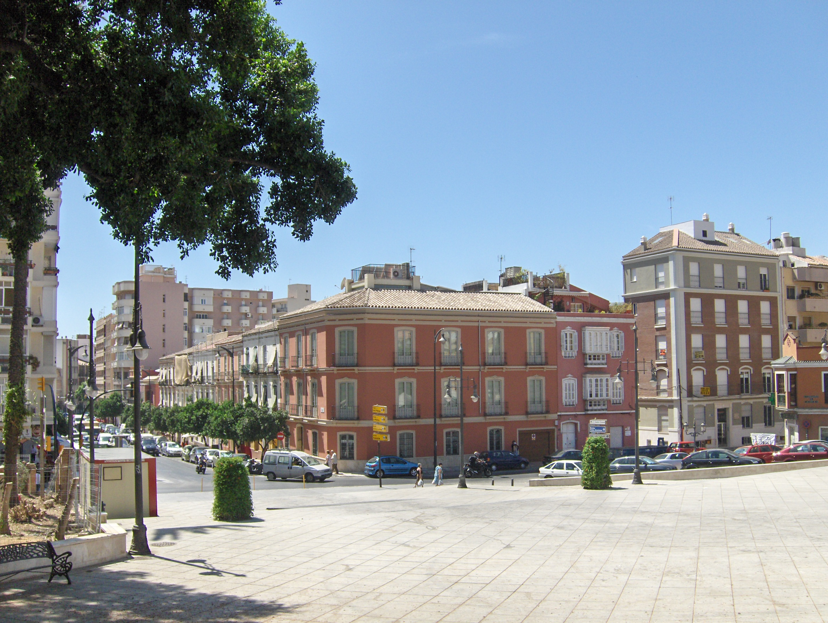 Plaza del Santuario, Málaga, Spain.